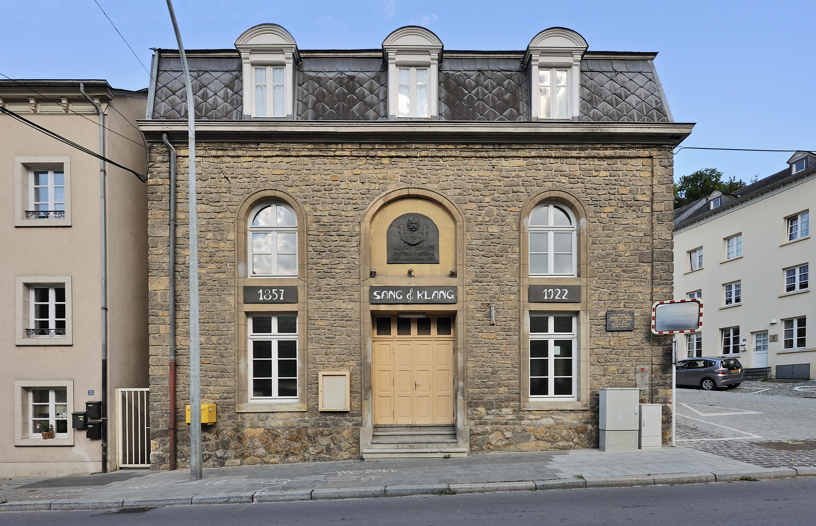 Luxembourg City, quarter of Pfaffenthall: concert hall of the association "Sang a Klang", founded in 1857.